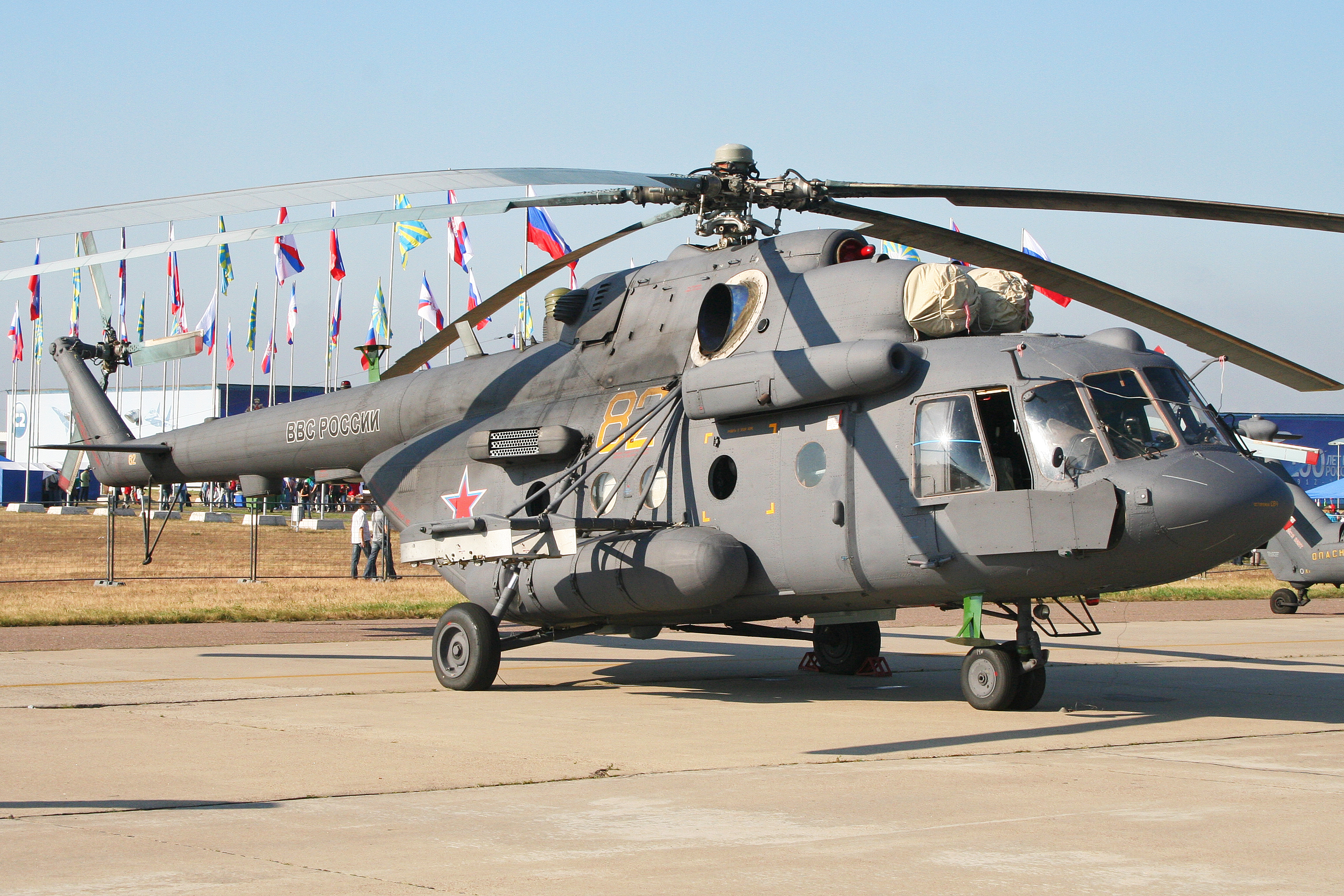 Operated by 4TsBP i PLS, Russian Air Force and based at Torzhok. c/n 96935. On static display at the Russian Air Force 100th Anniversary Airshow. Zhukovsky, Russia. 12-8-2012